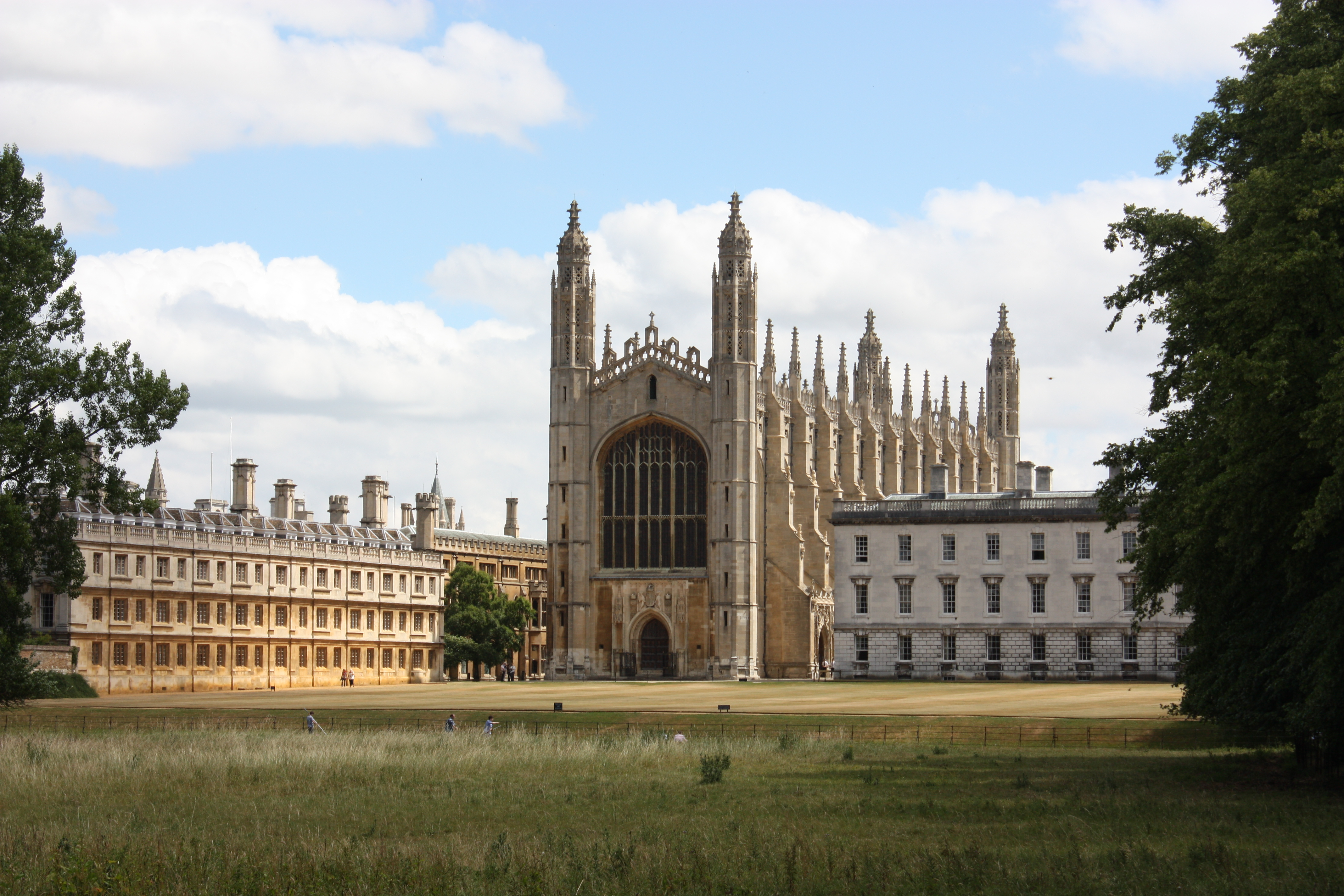 King's College Chapel (centre), Clare College (left) and King's College (right), Cambridge, Cambridgeshire, England, July 2010